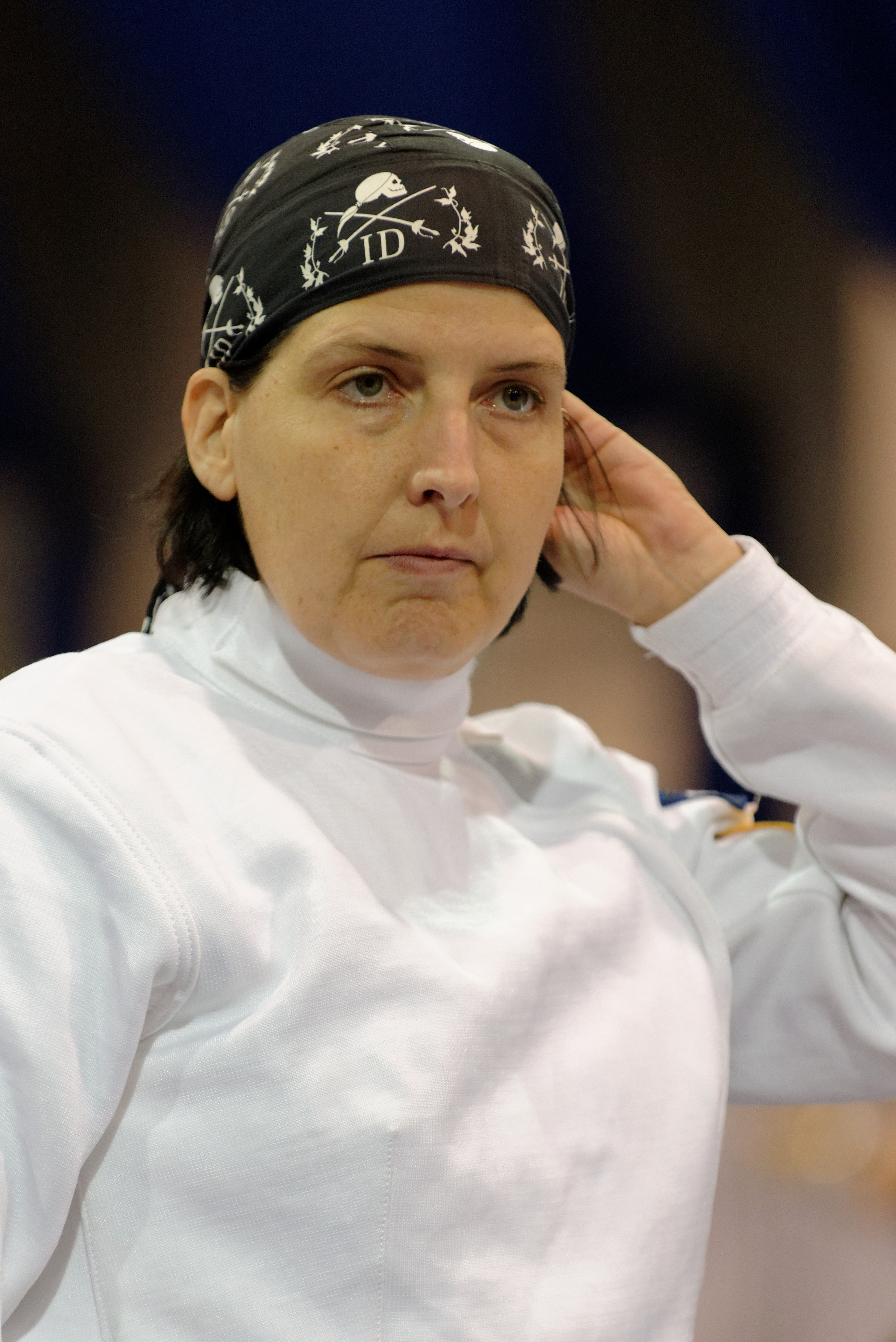 Imke Duplizer competes in the women's team épée during the 2013 World Fencing Championships 2013 at Syma Hall in Budapest, 11 August 2013.